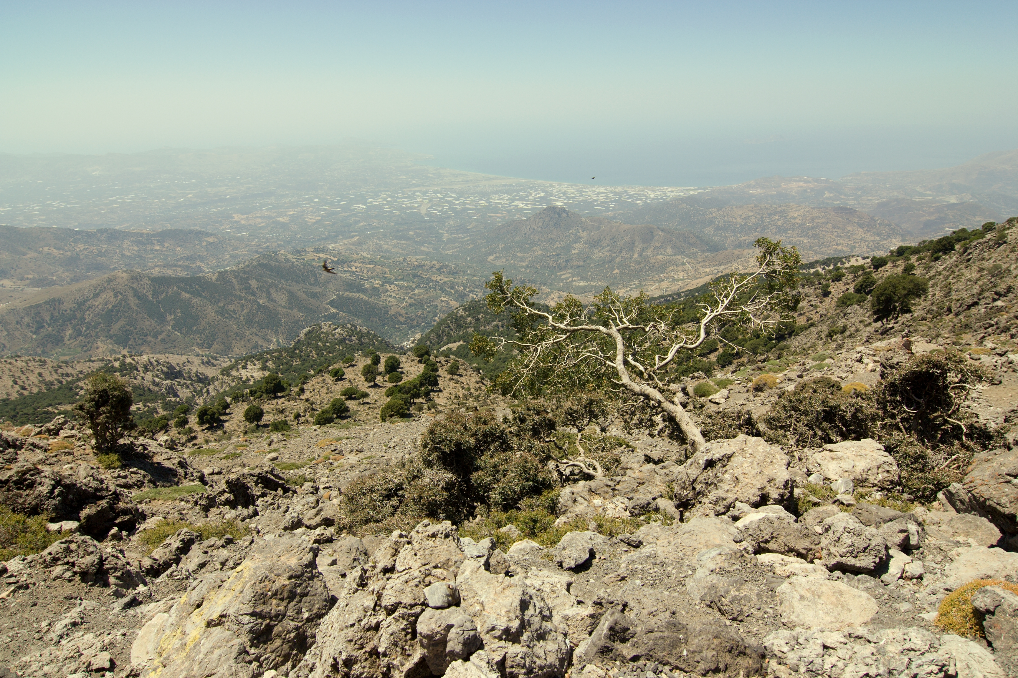 View from Cave of Kamares in southern Crete, near Phaistos.